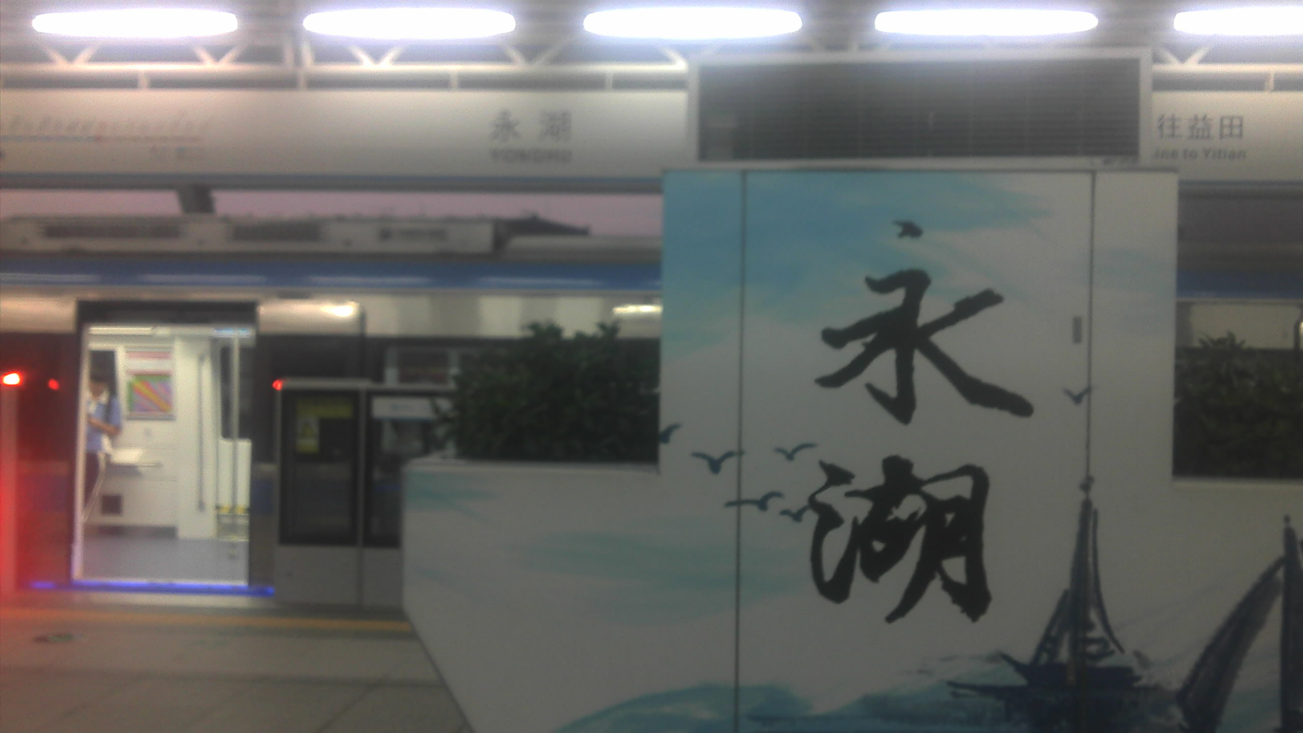 This photo was taken as Oct 14, 2011.